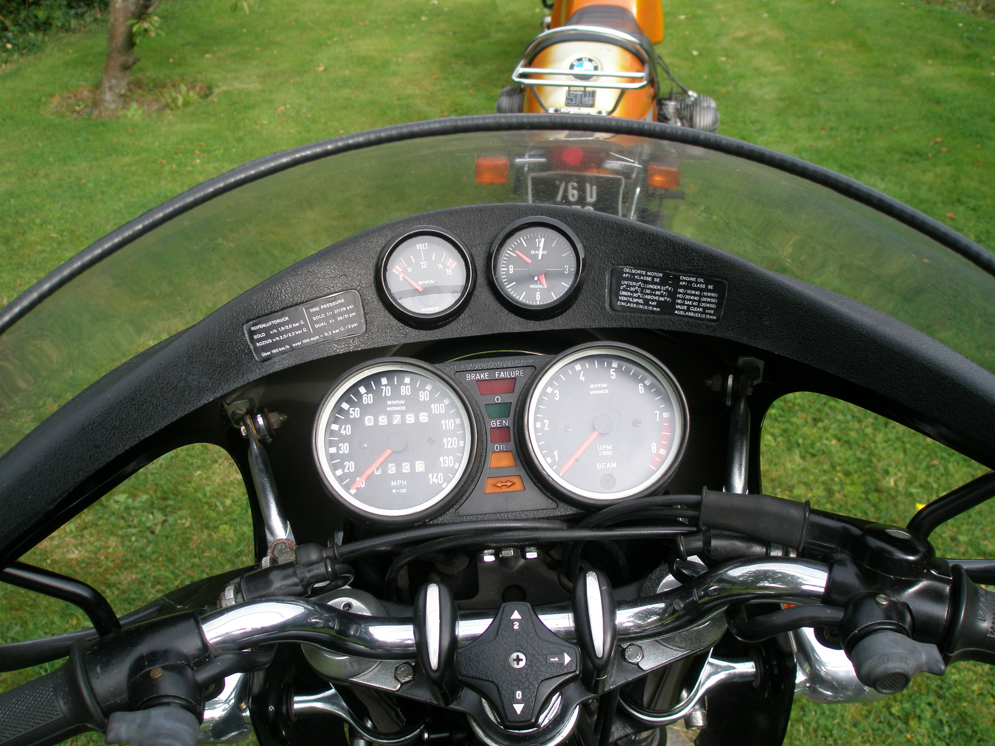 BMW R90s 1974 Cockpit